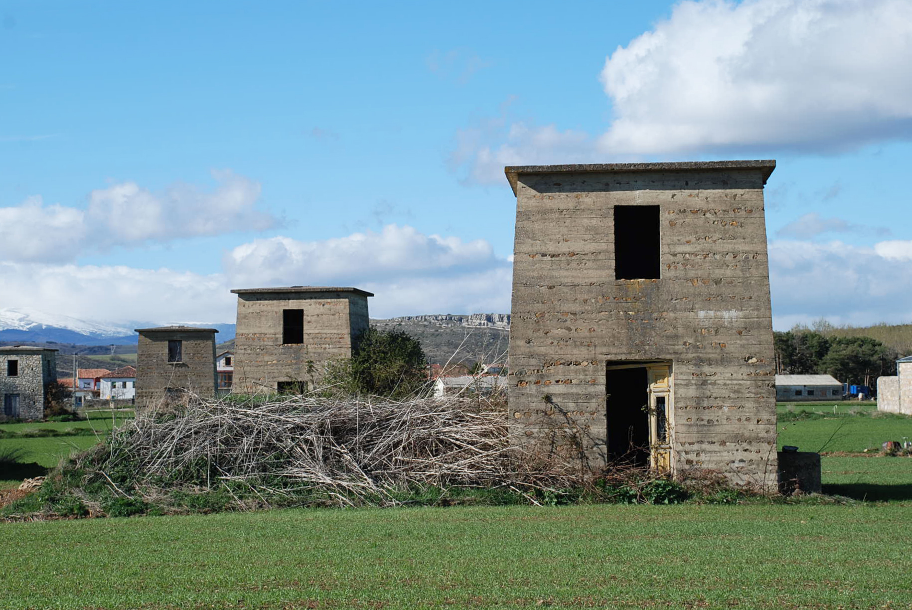 Santa María de Mave (Palencia, Castile and León).